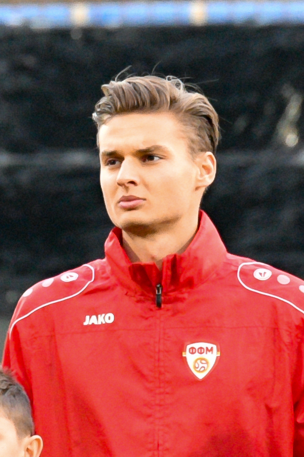 UEFA U21 EM-2019 Qualifiers Austria vs. FYR Macedonia 2018/03/27. Picture shows Dorian Babunski (MKD)